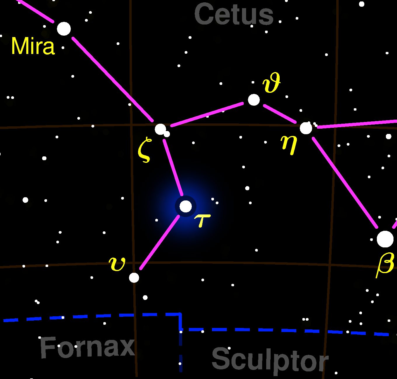 Location of Tau Ceti in the constellation Cetus.